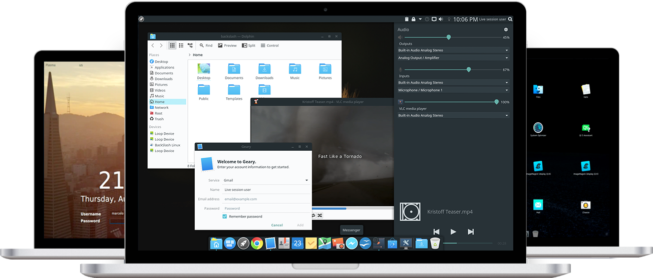 Devices Running BackSlash Linux Kristoff